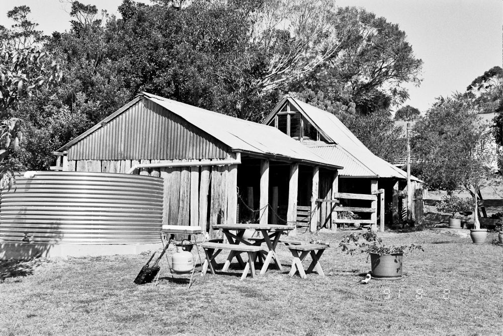 Slab Hut Farm (1991), view from below